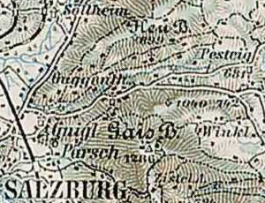 3rd Military Mapping Survey of Austria-Hungary - Salzburg; detail: Guggenth(al)